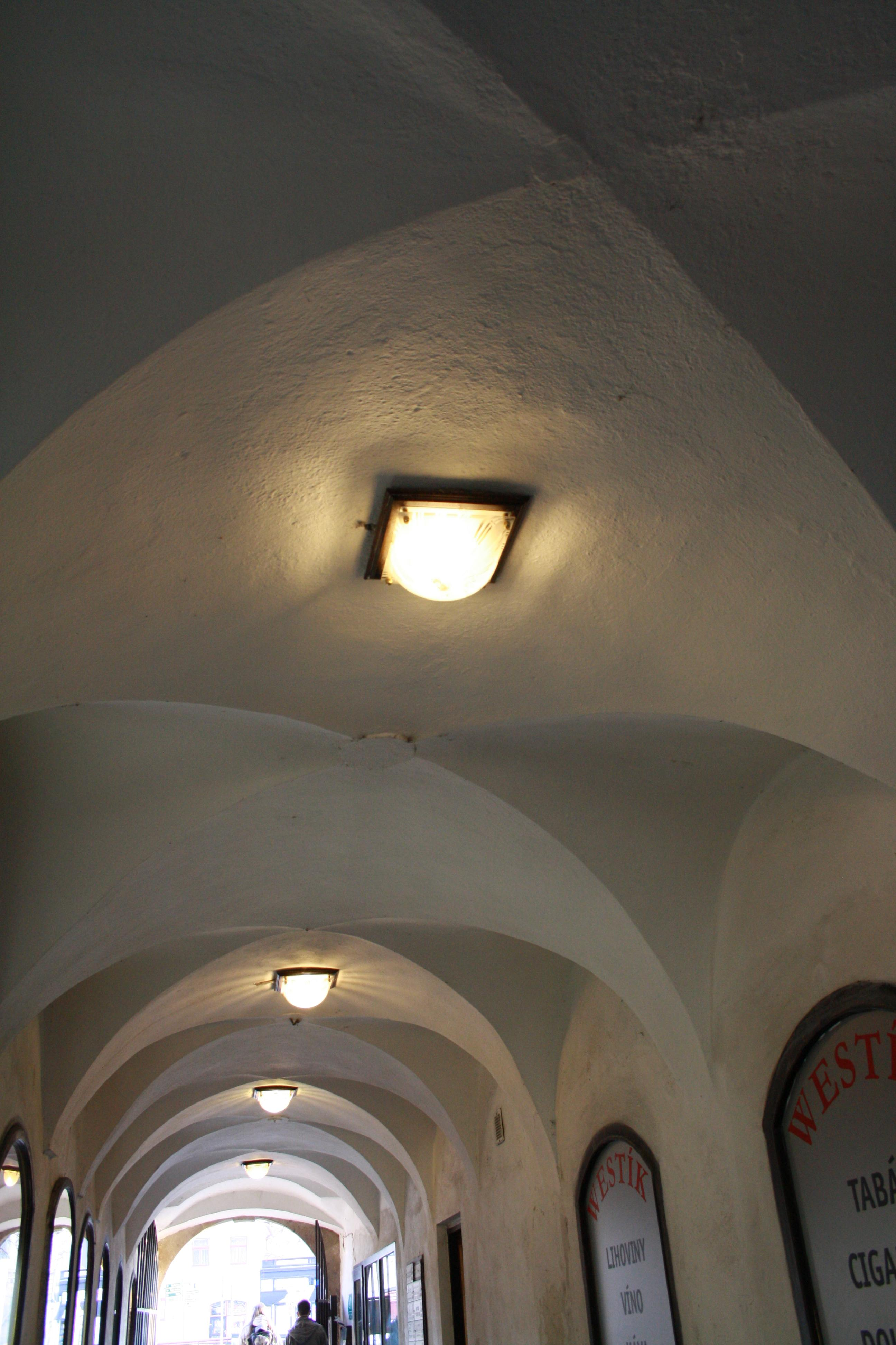 Vault of Černý dům in Třebíč, Czech Republic.